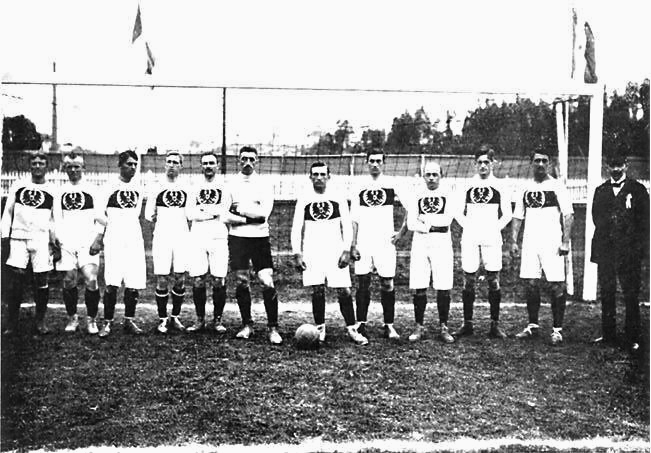 Germany national football team at the 1912 Summer Olympics. From left to right: Burger, Reese, Fuchs, Thiel, Hempel, Werner, Förderer, Oberle, Uhle, Glaser and Ugi.